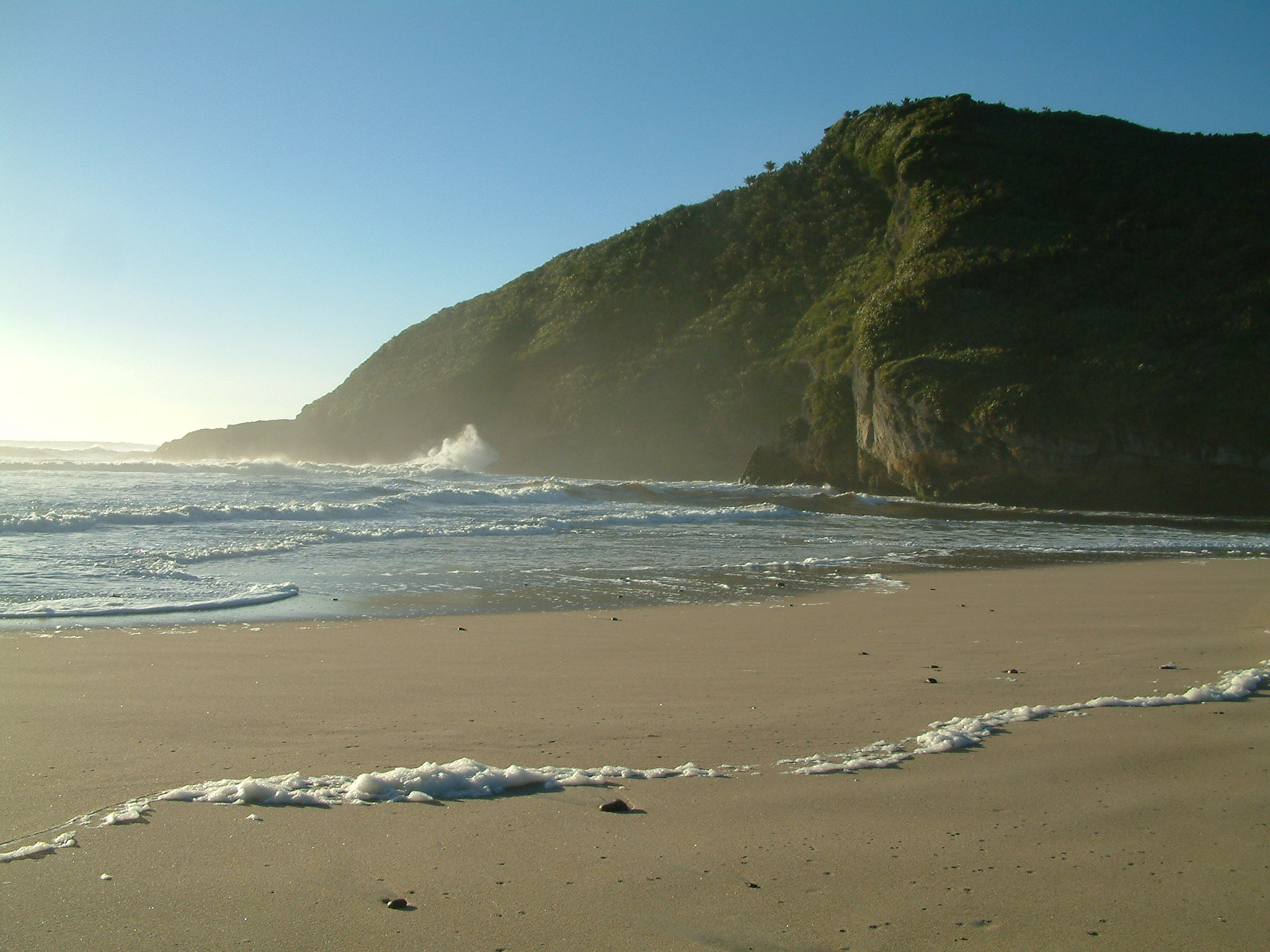 A beach on the Tasman Sea, at the mouth of Heaphy River, on the Heaphy Track, South Island, New Zealand